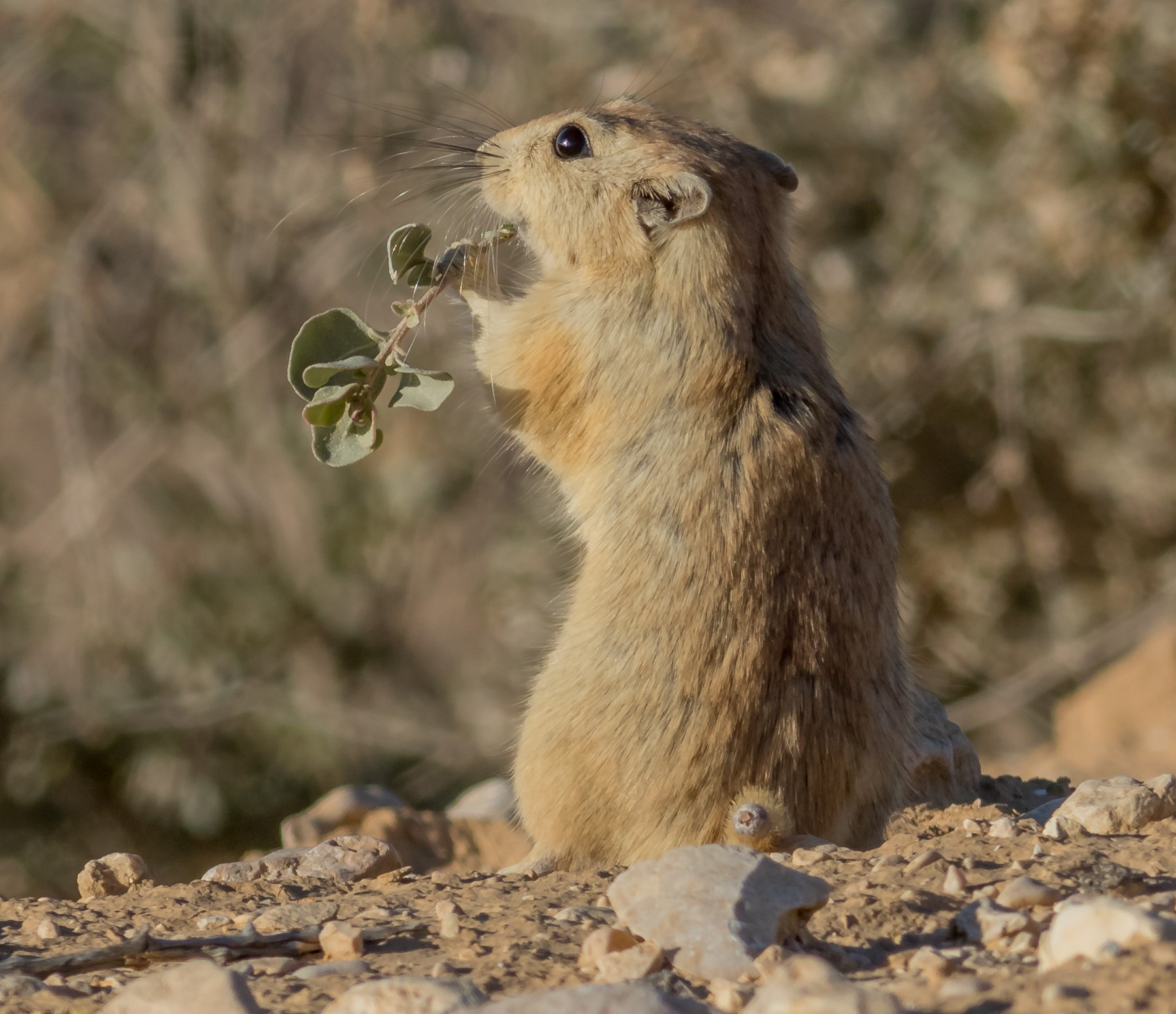 Psammomys obesus, Sde Boker- israel.